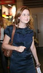 Jenna Fischer at the Dan in Real Life premiere